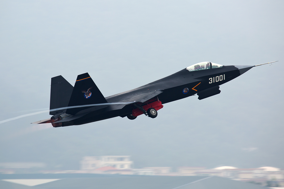 Shenyang FC-31 (F60) at 2014 Zhuhai Air Show